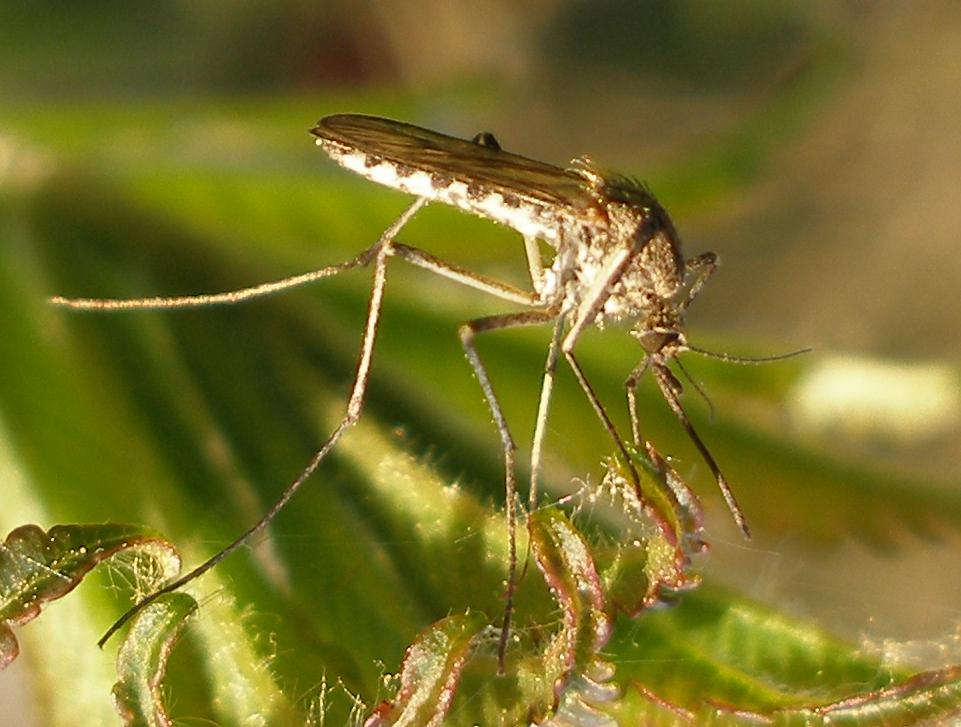 Culex (mosquito)